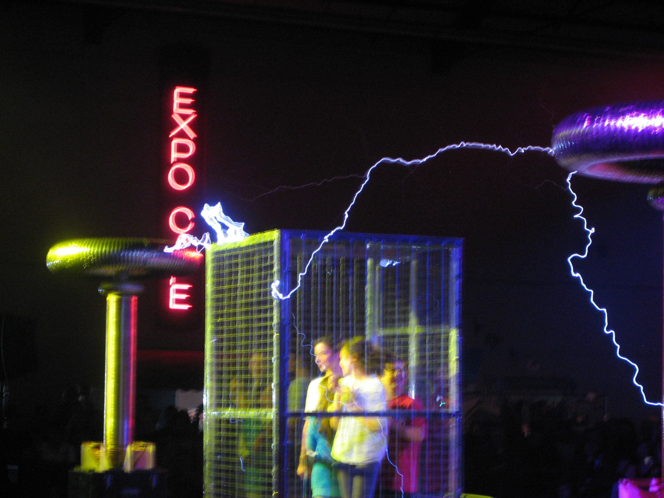 Children in a Faraday Cage getting zapped by Tesla Coils on the Tesla Stage in the Fiesta Hall at the 2011 San Mateo Maker Faire. These particular Tesla Coils are also musical instruments that emit sounds similar to early synthesizers. The Dual-Resonant Solid State Tesla Coils (DRSSTC) were created and performed upon by ArcAttack!, a pefformance group from Austin, TX.